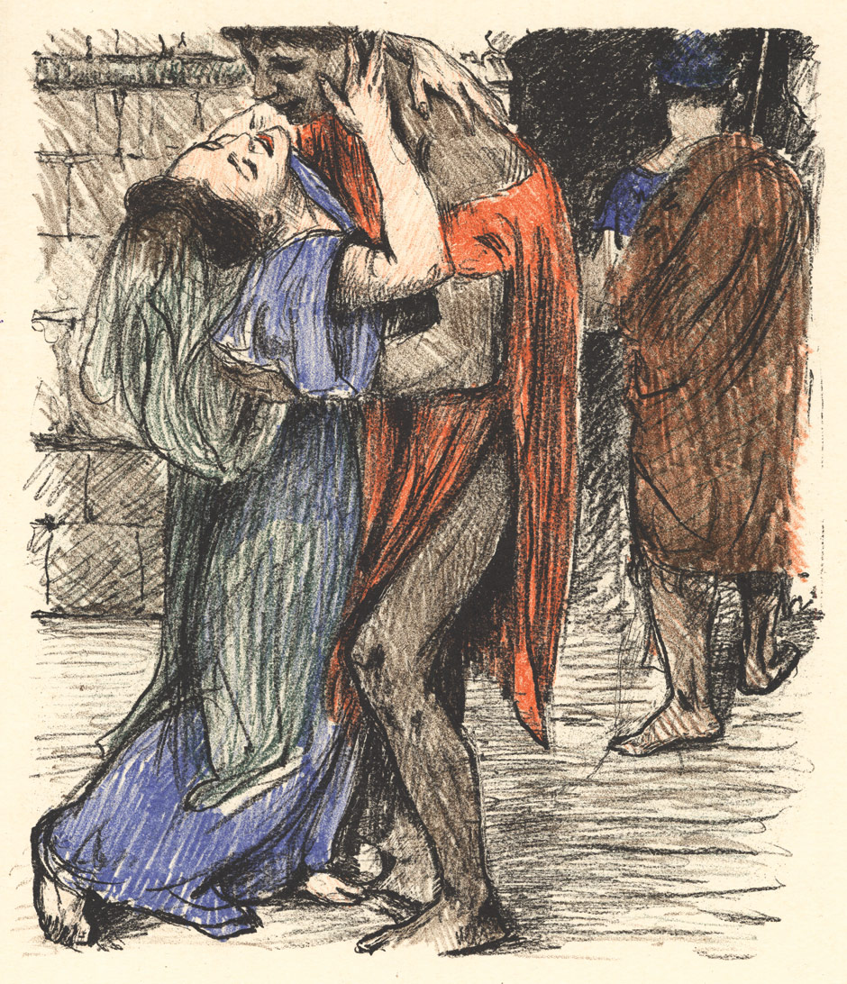 Illustration aus: Das hohe Lied, farbige Orig.-Lithographien von Lovis Corinth, Berlin, Cassirer, 1911 (Pan-Presse)